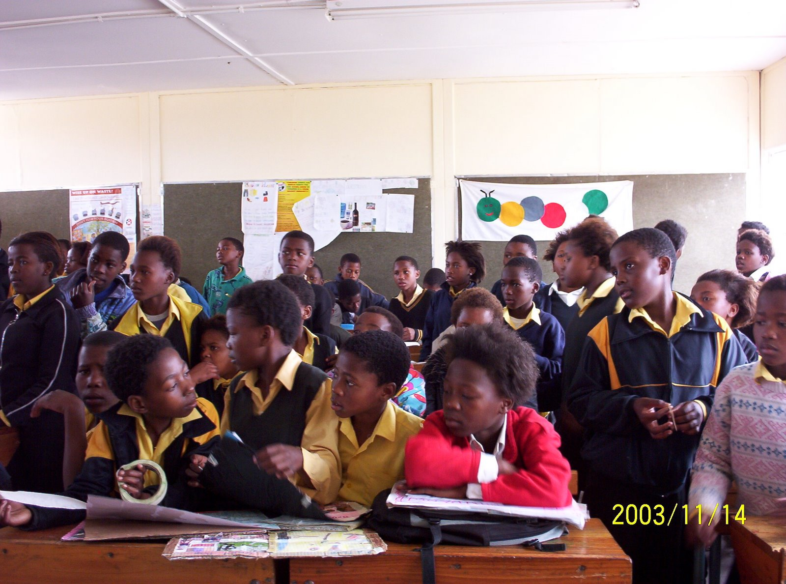 Pupils in a full classroom. Cape Town. South Africa. Over 80 pupils, not enough desks for all of them.